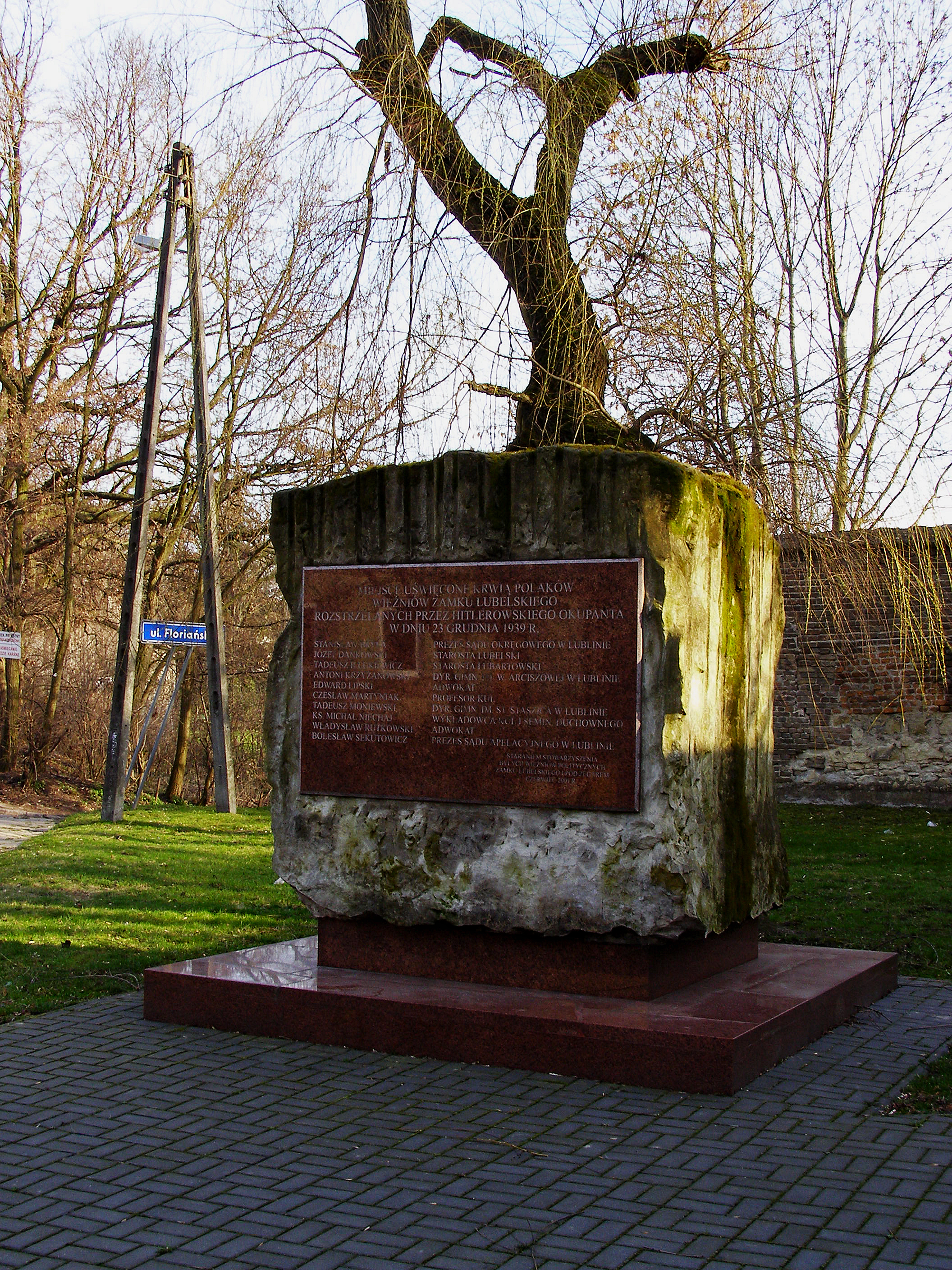 A monument commemorating the prisoners were shot in 1939-12-23 Lublin Castle.